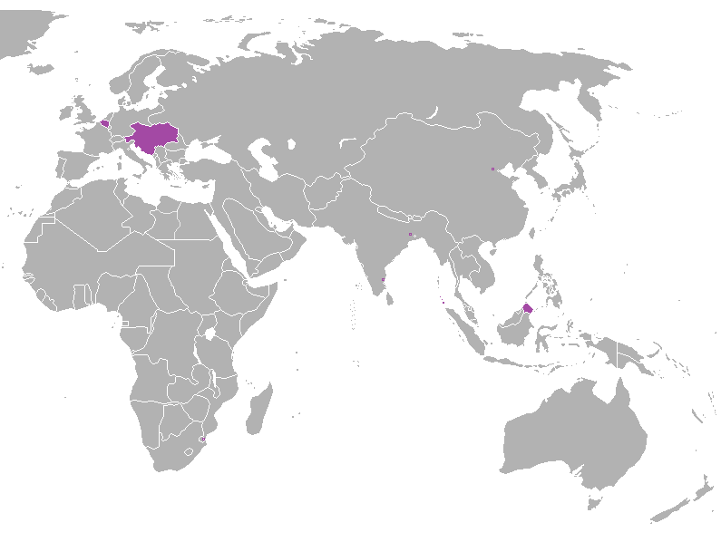 Austrian (Habsburg) colonies and concessions throughout history.